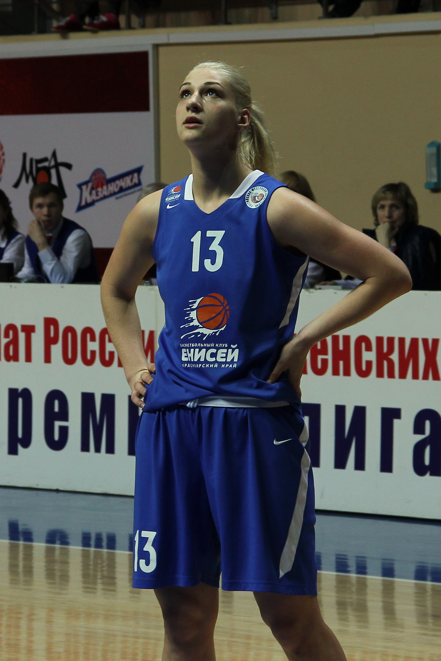 Russia, Vologda, Maryia Pоpova in game «Vologda-Chevakata» vs «Yenisei» (Krasnoyarsk)